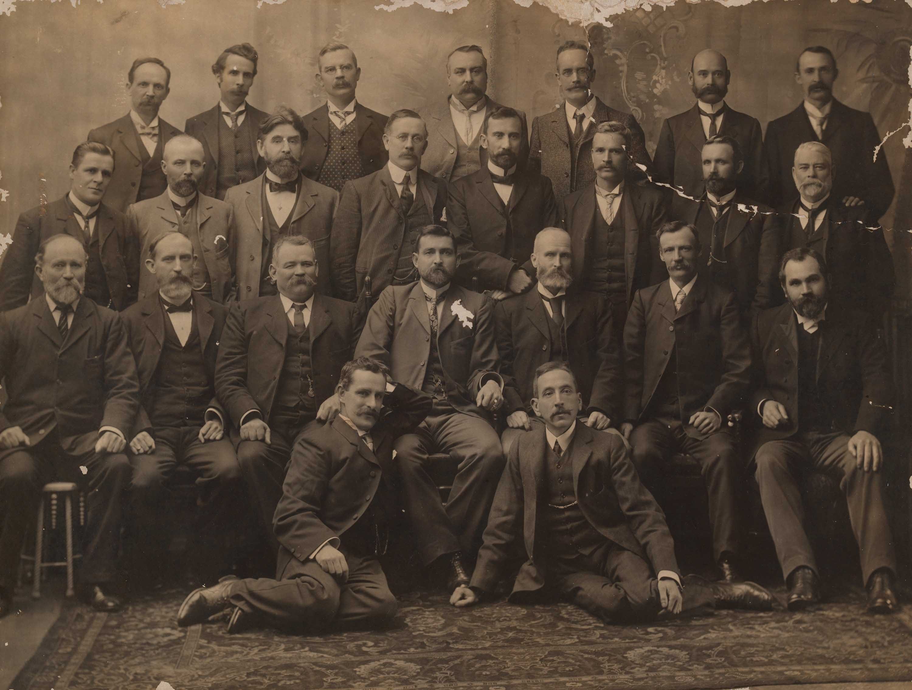 Group photograph of Federal Labour Party MPs elected to the Australian House of Representatives and Australian Senate at the inaugural 1901 election, including Chris Watson, Andrew Fisher, Billy Hughes, Frank Tudor, King O'Malley and Lee Batchelor. From left to right: Back Row - Charles McDonald, G Pearce, Josiah Thomas, James Page, James Fowler, J Barrett, D O'Keefe. Middle row - David Watkins, Thomas Brown, King O'Malley, Hugh Mahon, William Higgs, Andrew Fisher, Senator Hugh de Largie, Frederick Bamford. Front row - William Spence, A Dawson, Gregor McGregor, Chris Watson, J Stewart, Lee Batchelor, J Ronald. Kneeling - Frank Tudor, Billy Hughes.